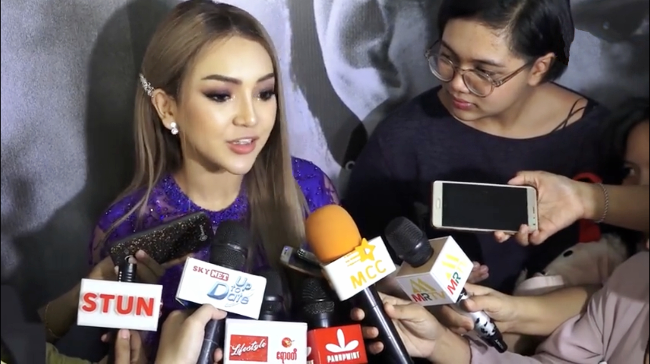 Actress Nay Chi Oo